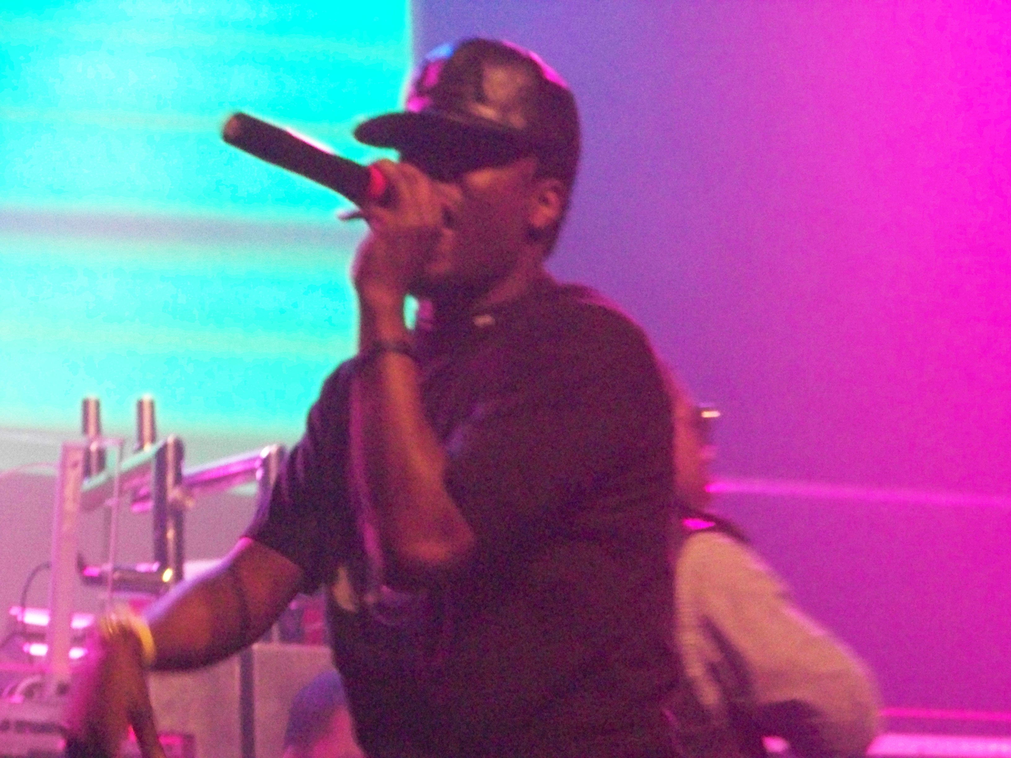 Rapper Wale performing in Atlanta, Georgia.